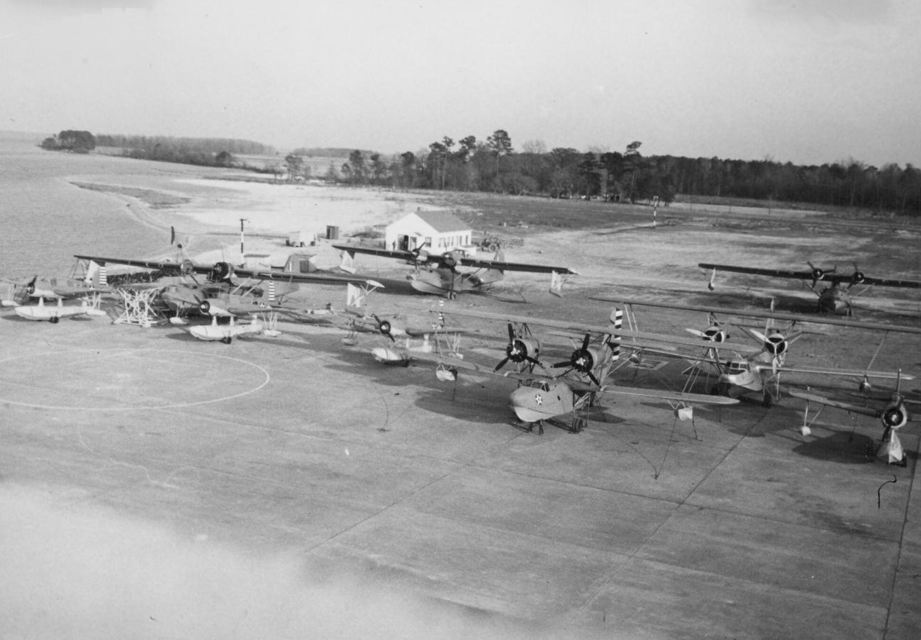 Four Vought OS2U Kingfishers, three Consolidated PBY Catalinas, and two Hall PH flying boats parked at the U.S. Coast Guard Air Station (CGAS) Elizabeth City, North Carolina (USA), 21 March 1942.